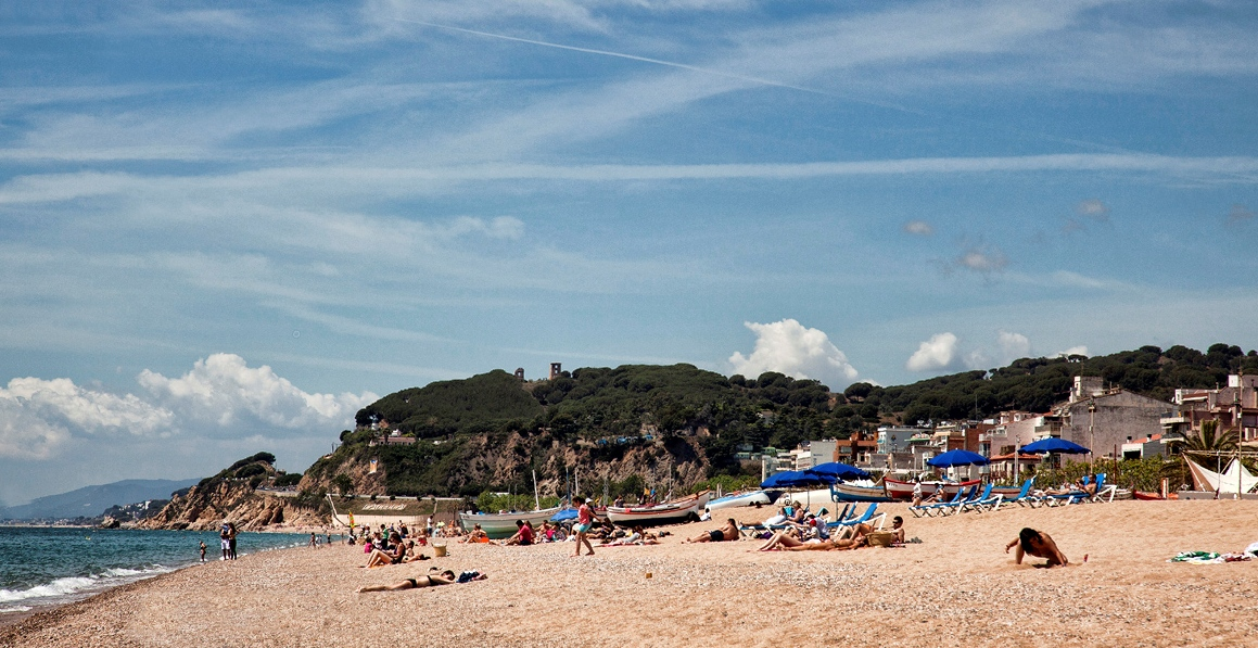 Calella beach in the summer